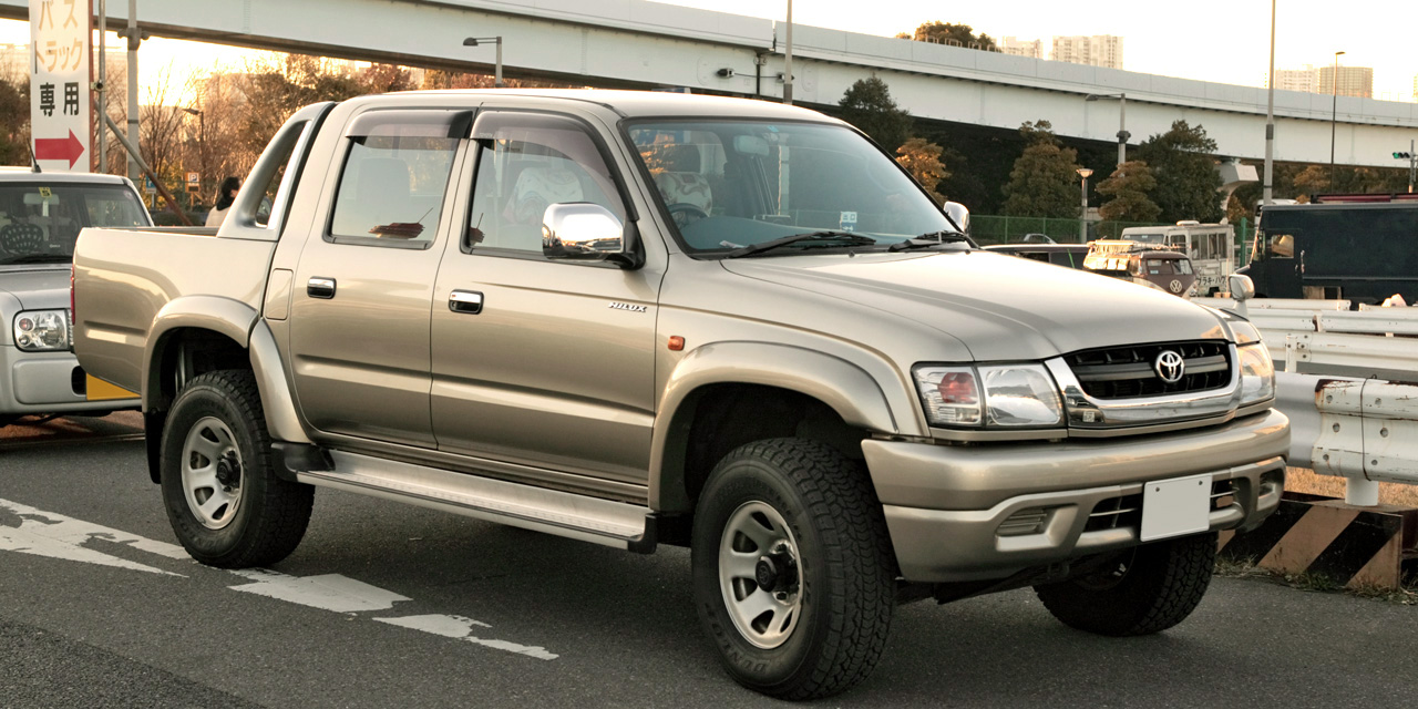 Toyota Hilux Sports Pickup Double Cab Wide 2700 4WD ( Japan spec RZN169H )